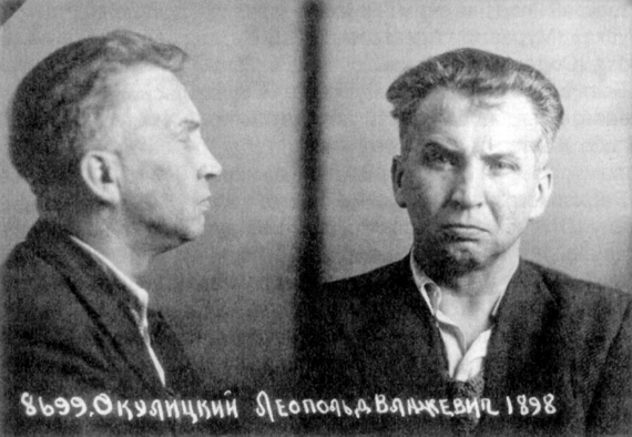 Leopold Okulicki (1898-1946) General of the Polish Army and the last commander of the anti-German underground Home Army during World War II. He was murdered after the war by the Soviet NKVD.